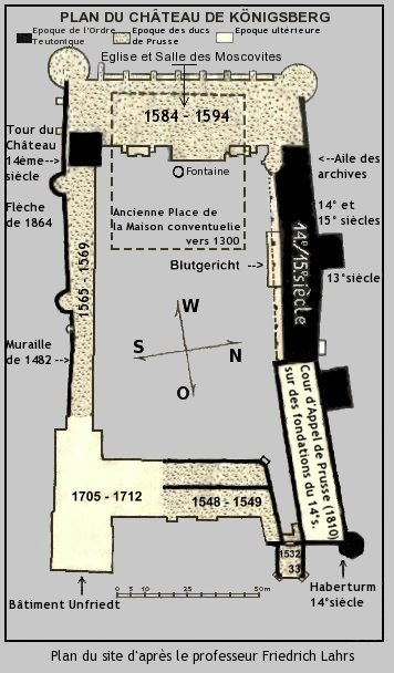 Plan of the Königsberg castle